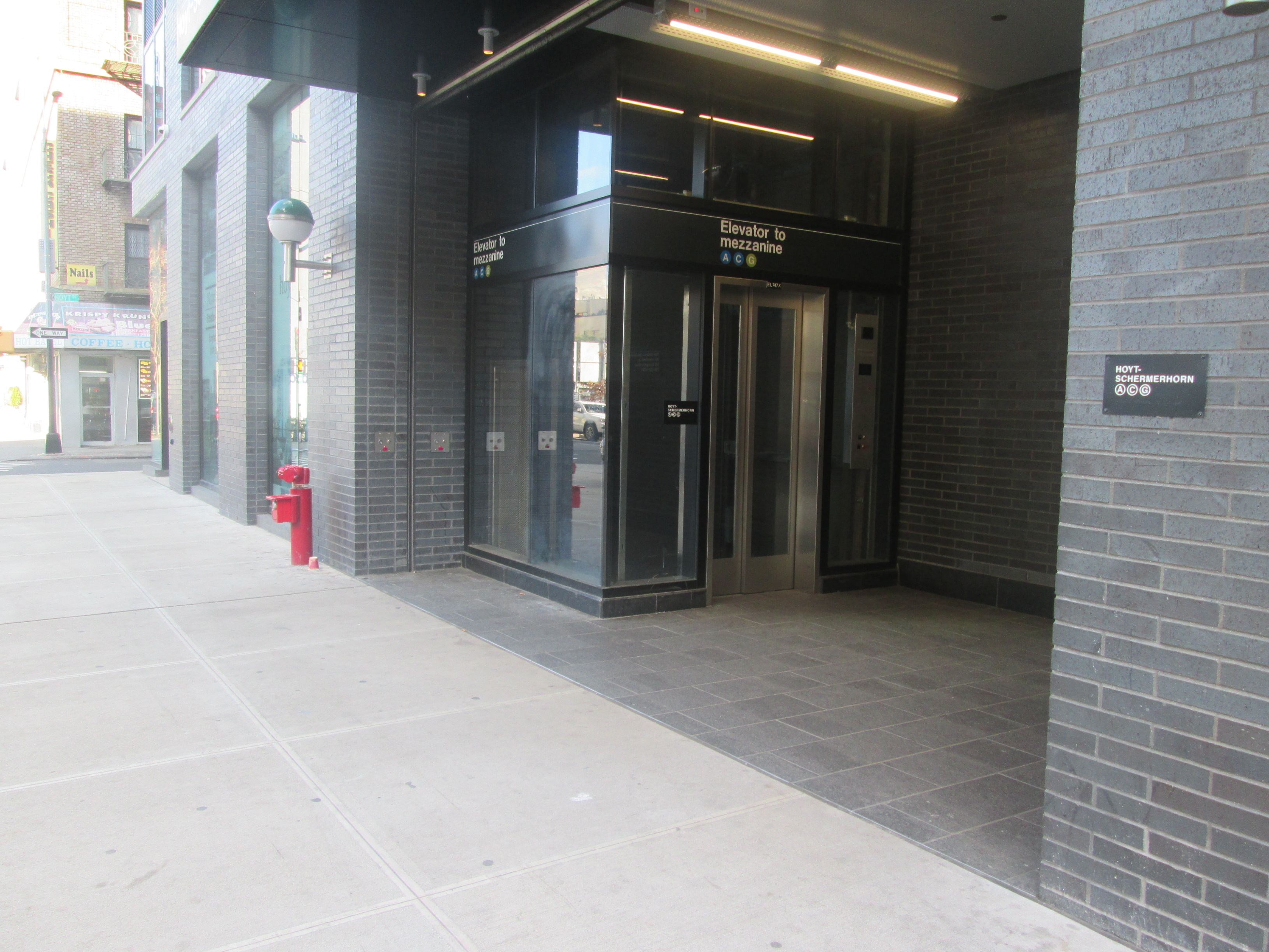 Entrance to the Hoyt-Schermerhorn Streets station inside the Hoyt & Horn building at 209 Schermerhorn Street, Brooklyn, New York